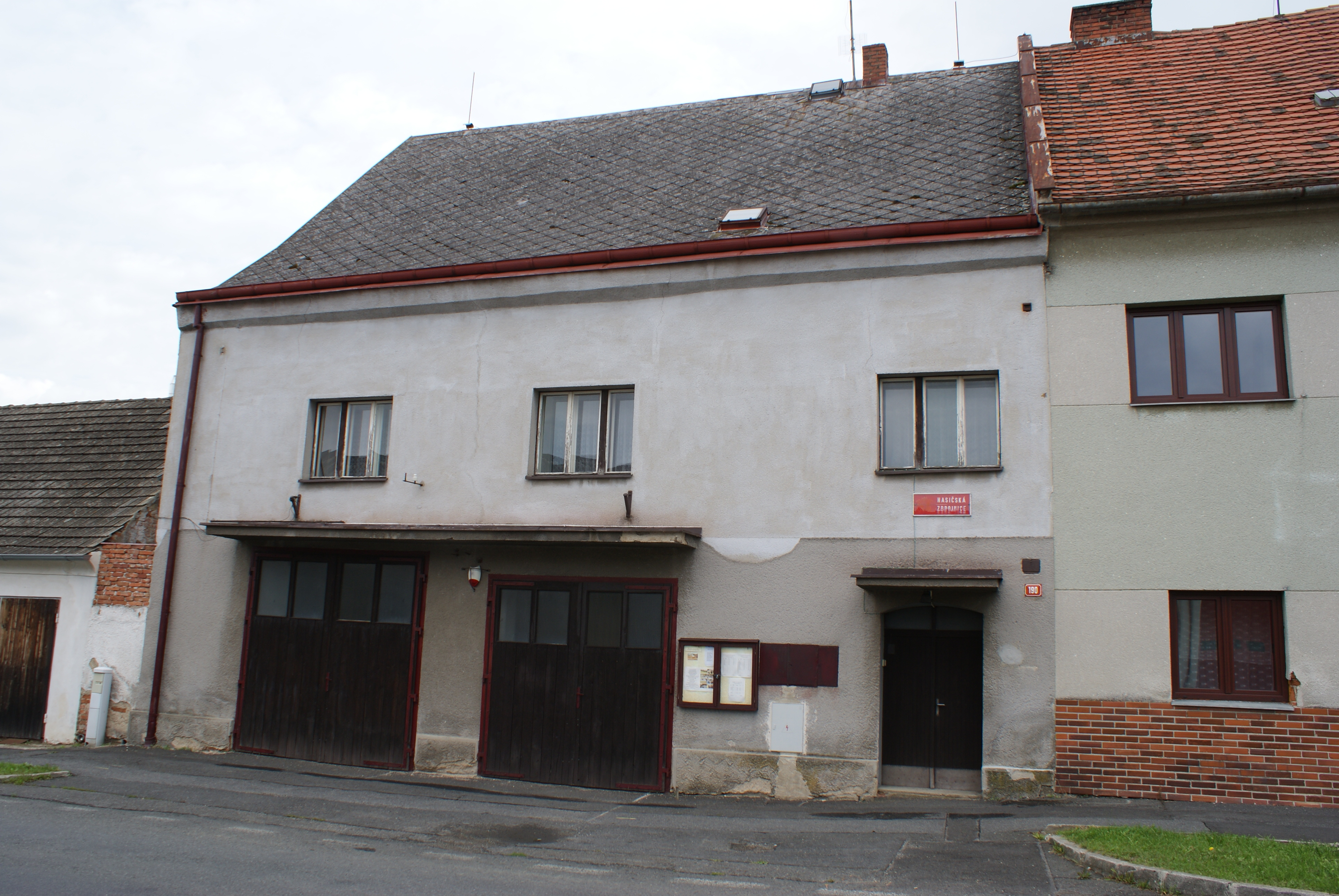 Former synagogue in Janovice nad Úhlavou, Klatovy district, Czech Republic. Česky: Bývalá synagoga v Janovicích nad Úhlavou okr. Klatovy